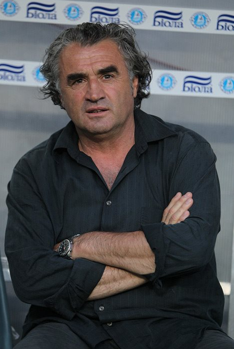 Dragan Miranović during a UEFA Europa League qualifier between Dnipro Dnipropetrovsk and Spartak Subotica on 5 August 2010